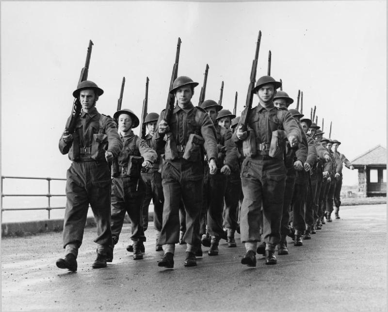 Luxembourg Troops Fight With United Nations- Training With the Belgian Army in England, UK, 1943 Soldiers from Luxembourg march with their rifles along the sea front, during a training session with the Belgian Army on the coast, somewhere in England.